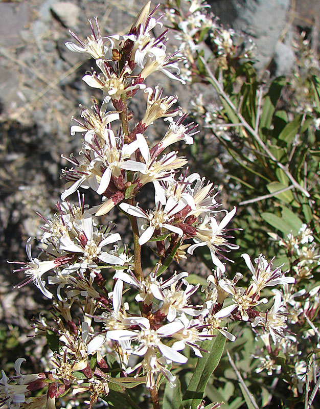 There are at least three varieties of this shrub which goes by the name of Huañil. In context at